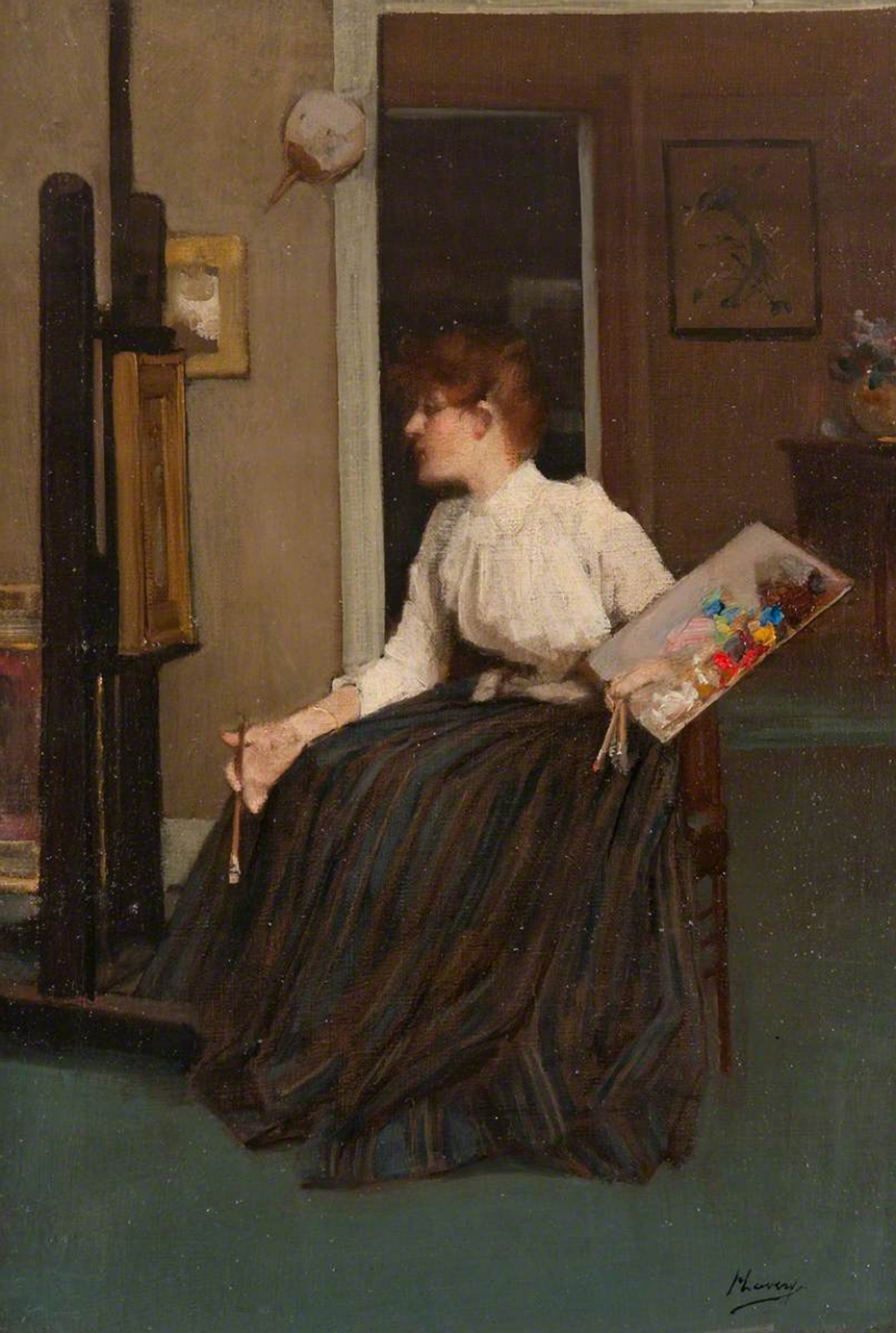 Джон Лавери (англ. John Lavery) (1856—1941) — ирландский художник, мастер портретной и пейзажной живописи. ================== Sir John Lavery RA (20 March 1856 – 10 January 1941) was an Irish painter best known for his portraits and wartime depictions.